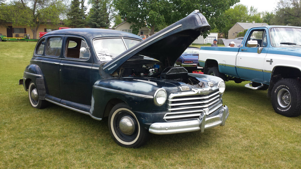 A fantastic survivor 1948 Monarch sedan. Sold only in the Canadian market Monarchs used Mercury bodies with special trim, lights and grills.